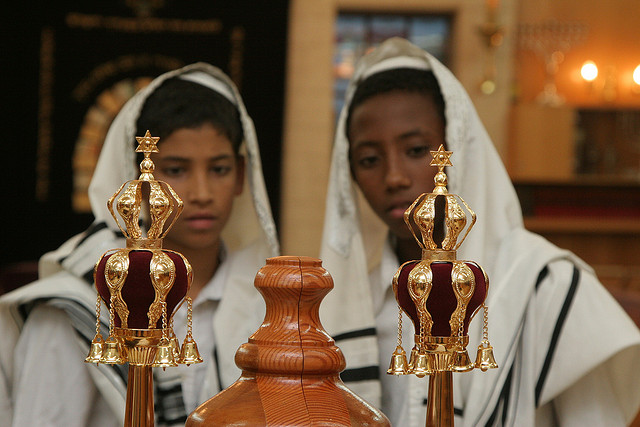 Bar mitzva , Events in Israel